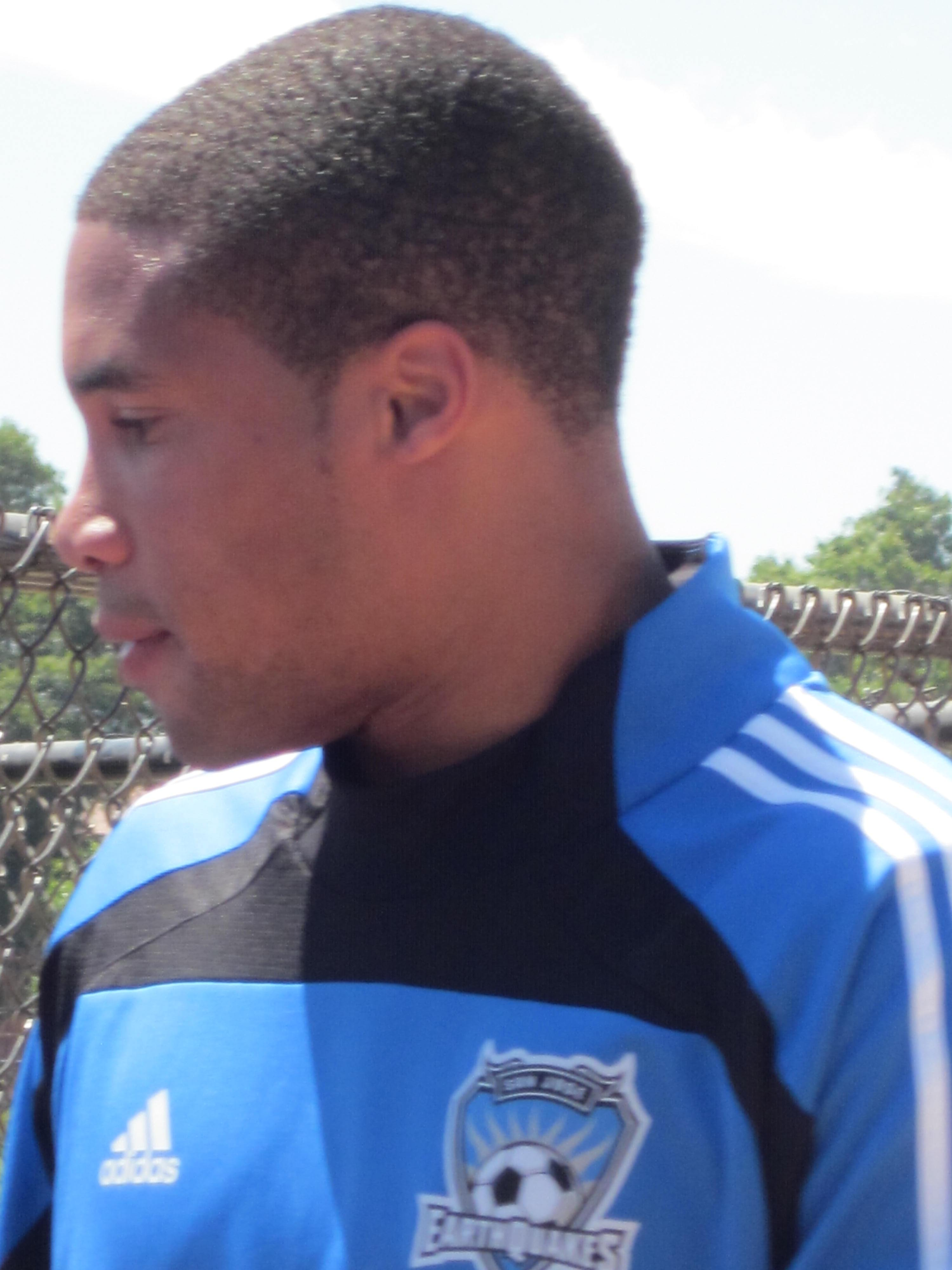 San Jose Earthquakes player Ryan Johnson coming out to warm up before a home game against the LA Galaxy. The Earthquakes won 1-0.